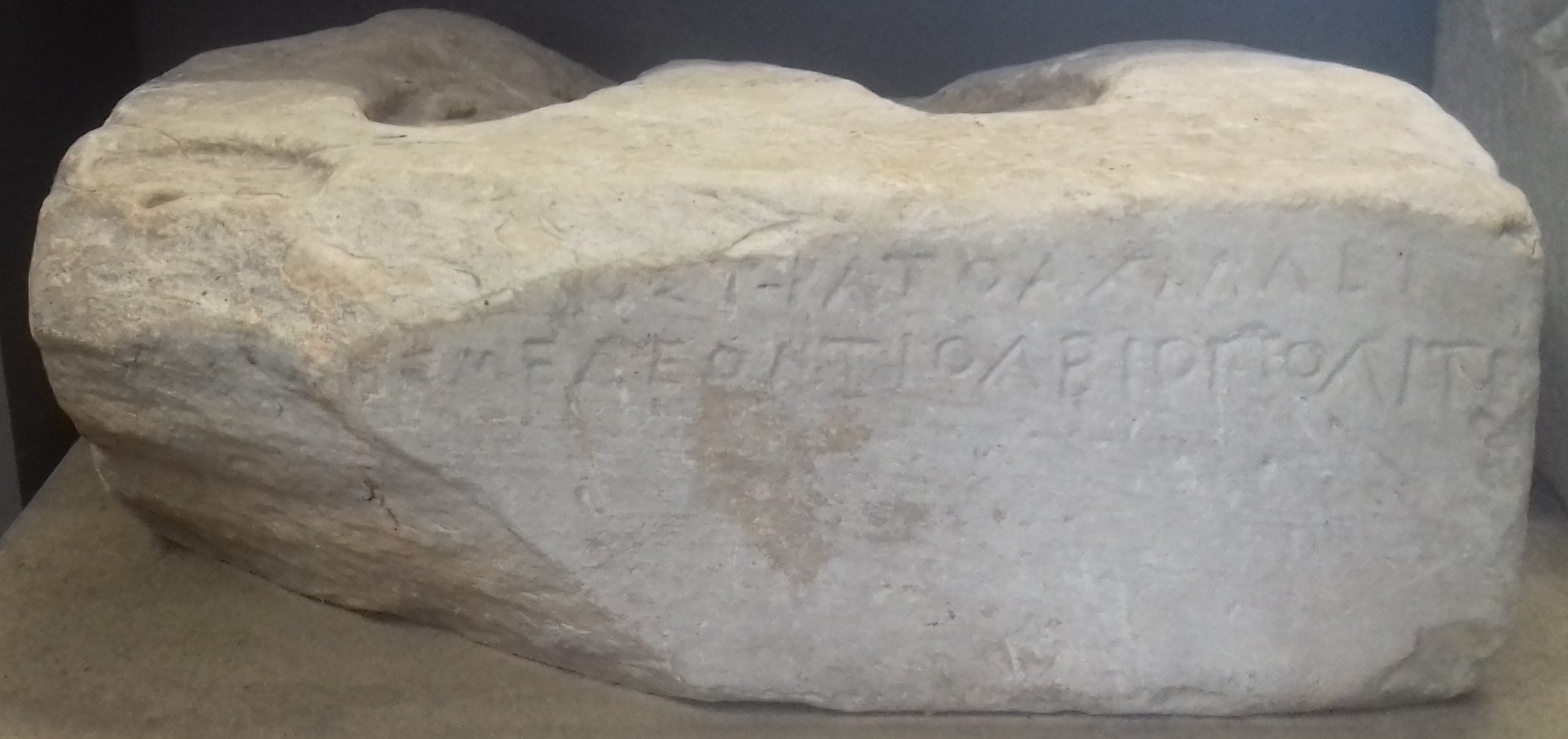 Pedestal of statue dedicated to Achilles. Leuke (Snake) Island. 4th c. BC Odessa Archeological Museum